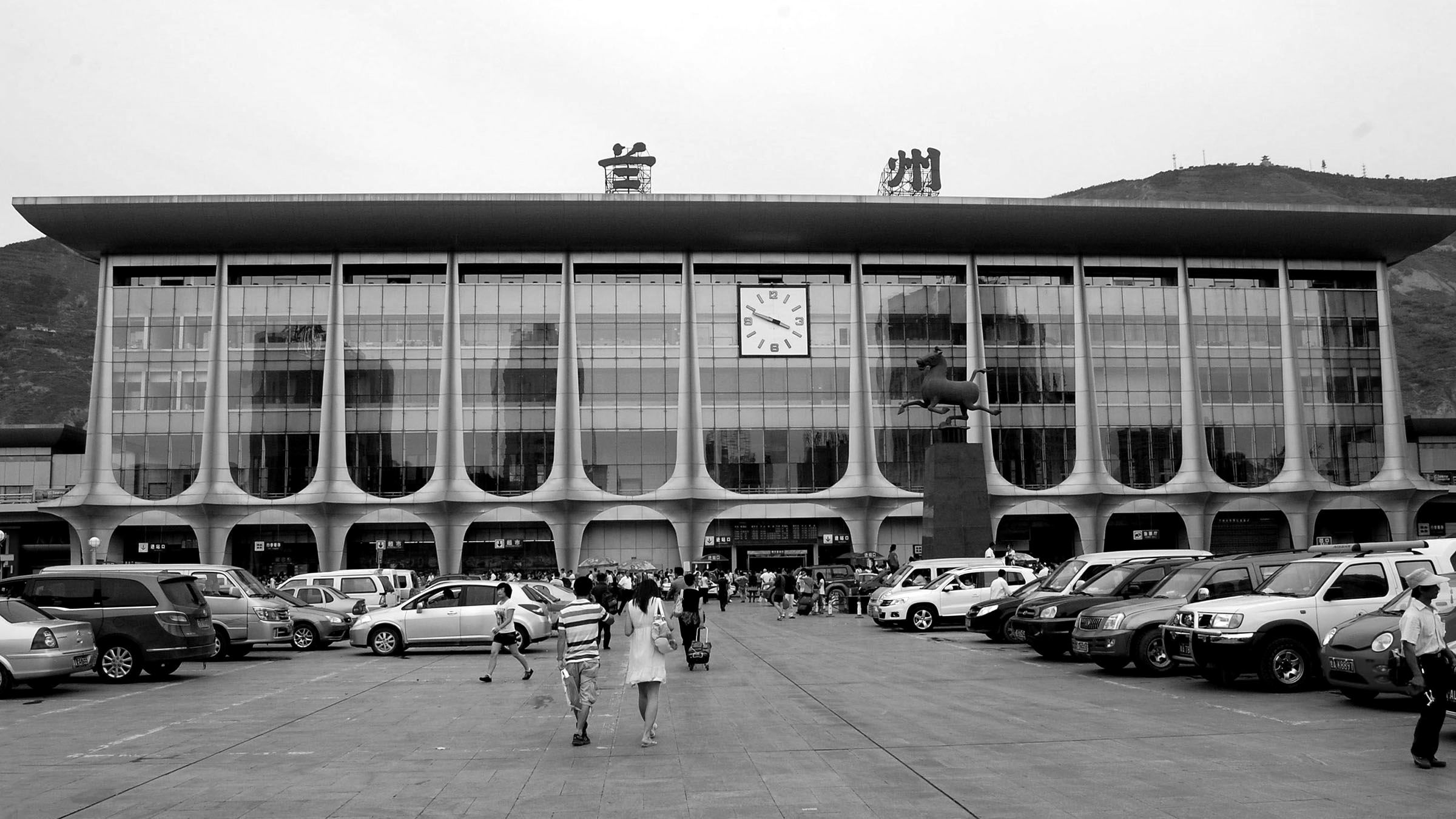 Lanzhou Railway Station 2011